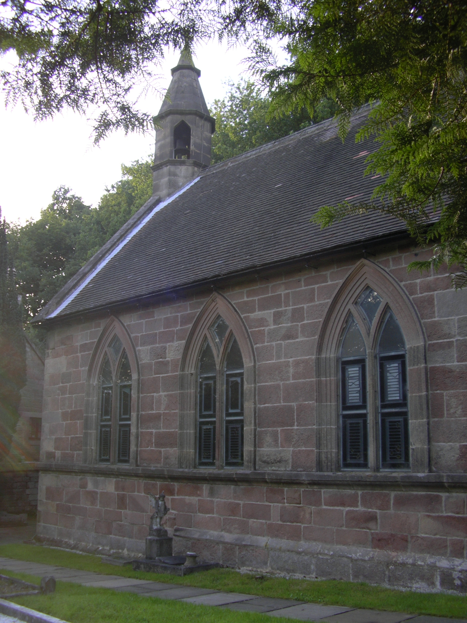 View of the Church of the Holy Name of Jesus, St Michael and All Angels, Birchover, from the south, showing the stained glass windows fabricated for and donated to the church by artist Brian Clarke in 1977.